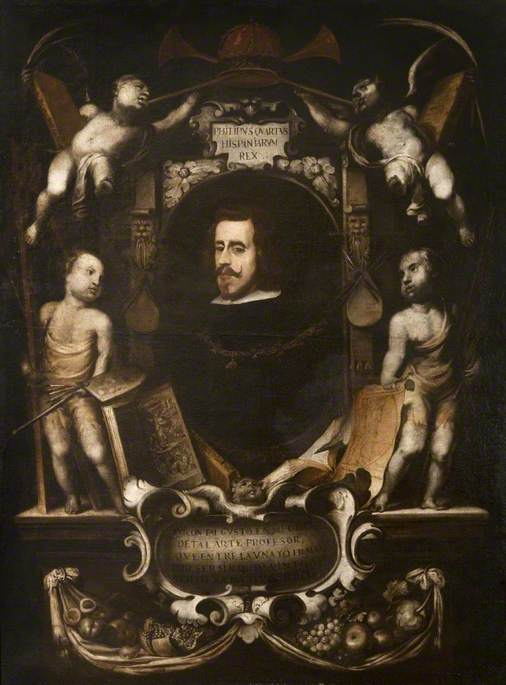 Felipe IV en guirnalda alegórica, óleo sobre llienzo, 178,1 x 131,4 cm, Glasgow Museums, Pollok House